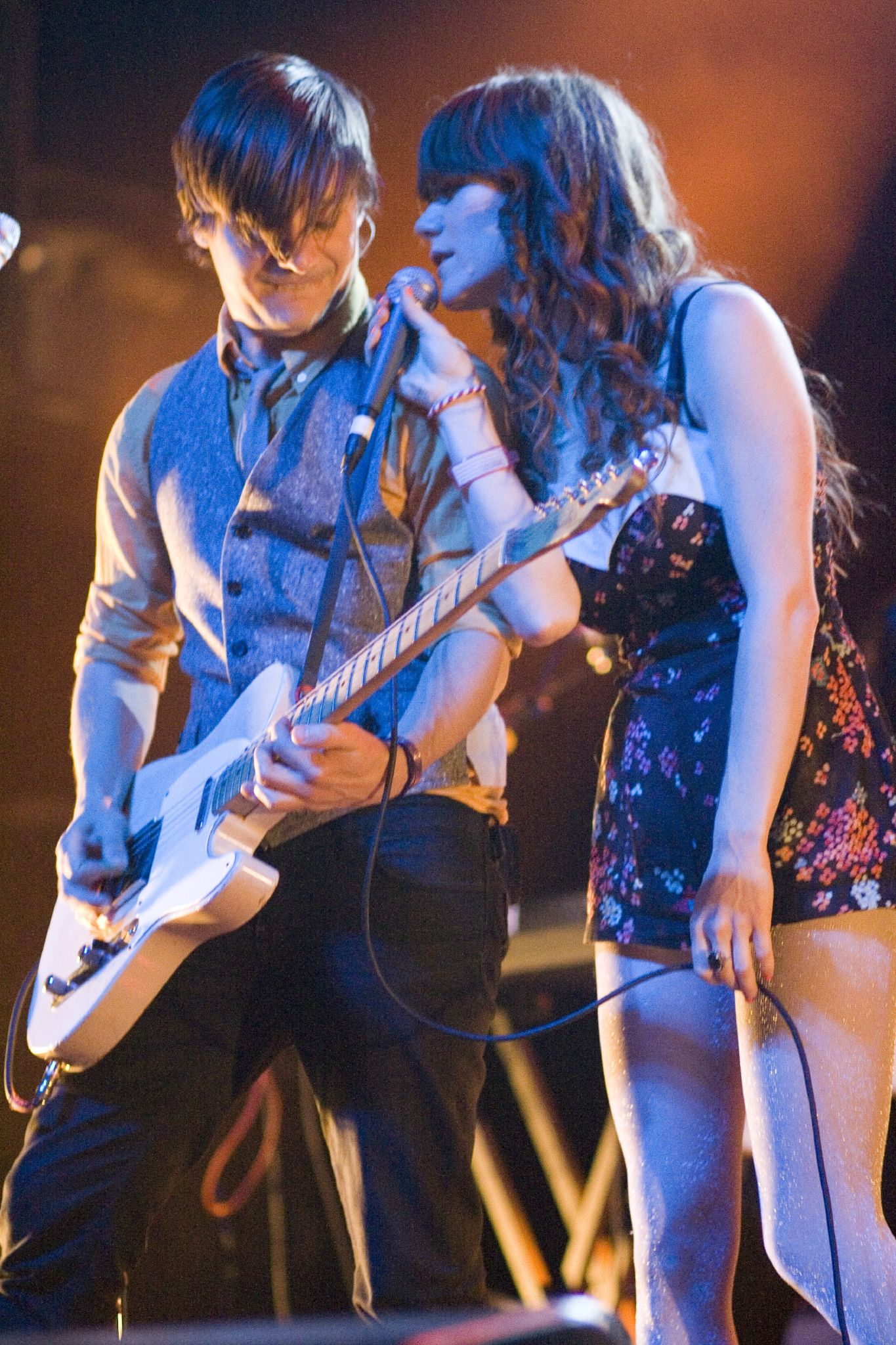 Rilo Kiley @ Terminal 5, NY, NY, 6/2/08